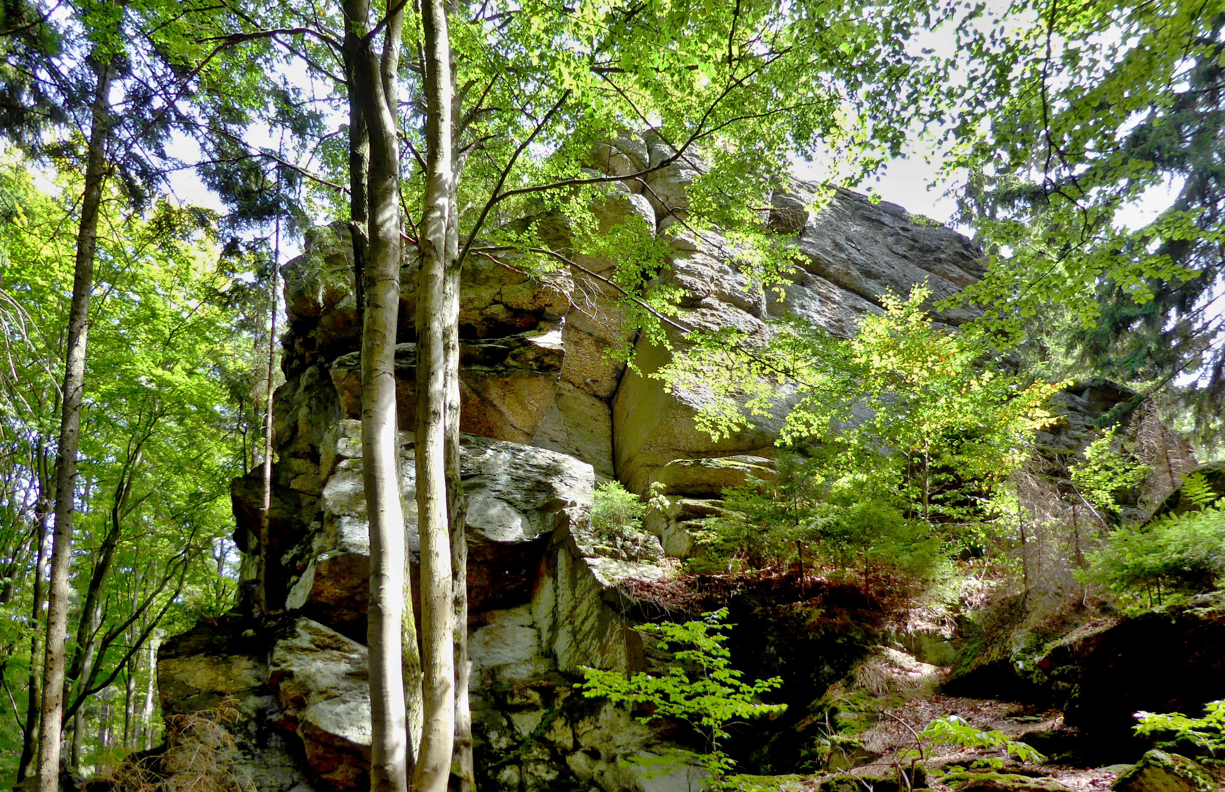 Chateau Tower (765 m above sea level), originally called the "petrified tower", in a group of rocks with the geographical name Petrified Chateau in the geomorphological district "Borovský" Forest. Petrified Chateau is important geological locality, cultural and natural monument of the Czech Republic. It is located in the cadastral area of town Svratka and is part of the Žďár Hills Protected Landscape Area. A blue touristic route of the Czech Tourists Club leads to the group of rocks (in the section: hunting chateau "Karlštejn" – Petrified Chateau – "Milovské Perničky").Photo-location: Czechia, Vysočina Region, the town of Svratka, a group of rocks called Petrified Chateau (azimuth 260°).